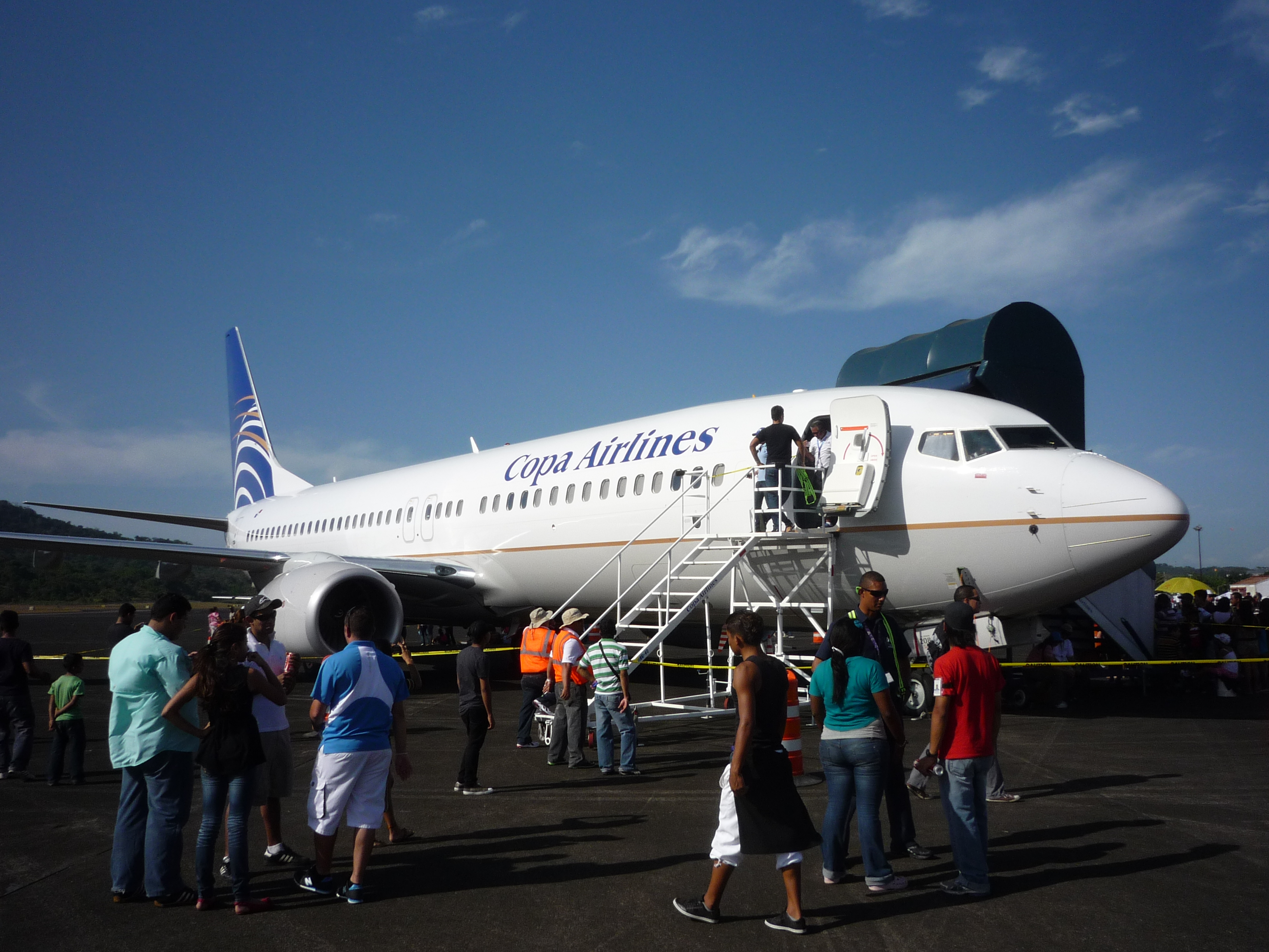 Copa Airlines 737-800